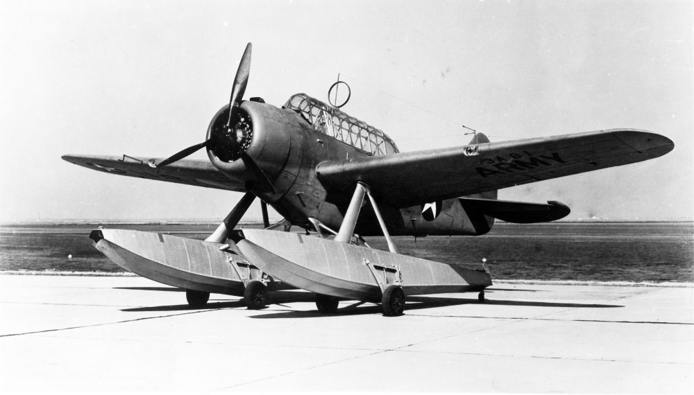 PictionID:40971226 - Title:North American O-47A 3AO1 on floats - Catalog:15_002827 - Filename:15_002827.tif - Image from the Charles Daniels Photo Collection album "US Army Aircraft."----PLEASE TAG this image with any information you know about it, so that we can permanently store this data with the original image file in our Digital Asset Management System.----SOURCE INSTITUTION: San Diego Air and Space Museum Archive